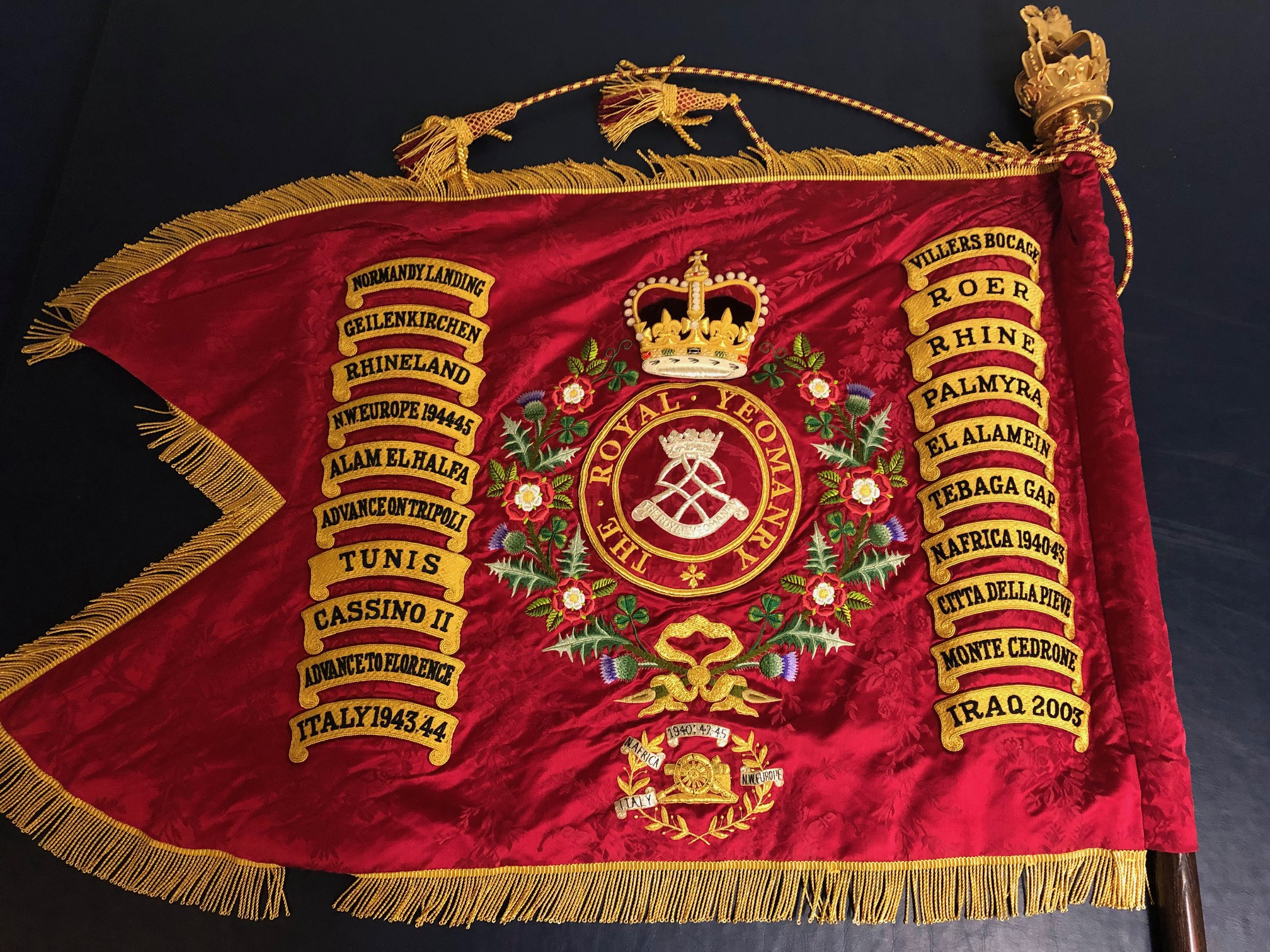 This is the Regimental guidon (the cavalry term for the 'colours'), the battle flag of the Royal Yeomanry, a regiment of the British Army Reserve.